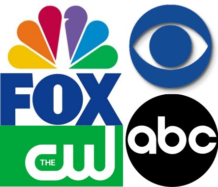 Logos of the 5 major U.S. broadcast networks.